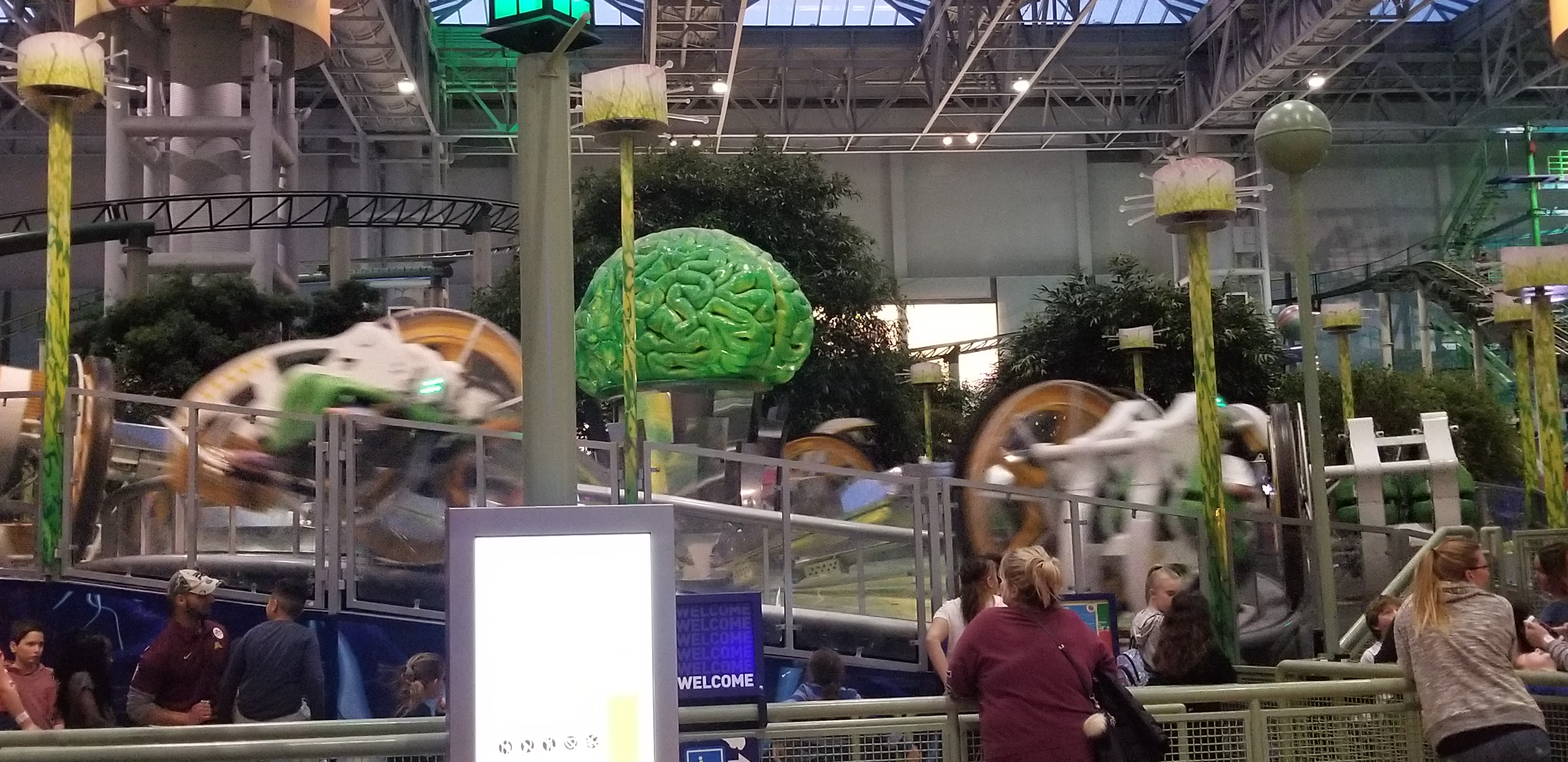 The BrainSurge attraction at Nickelodeon Universe in Bloomington, MN